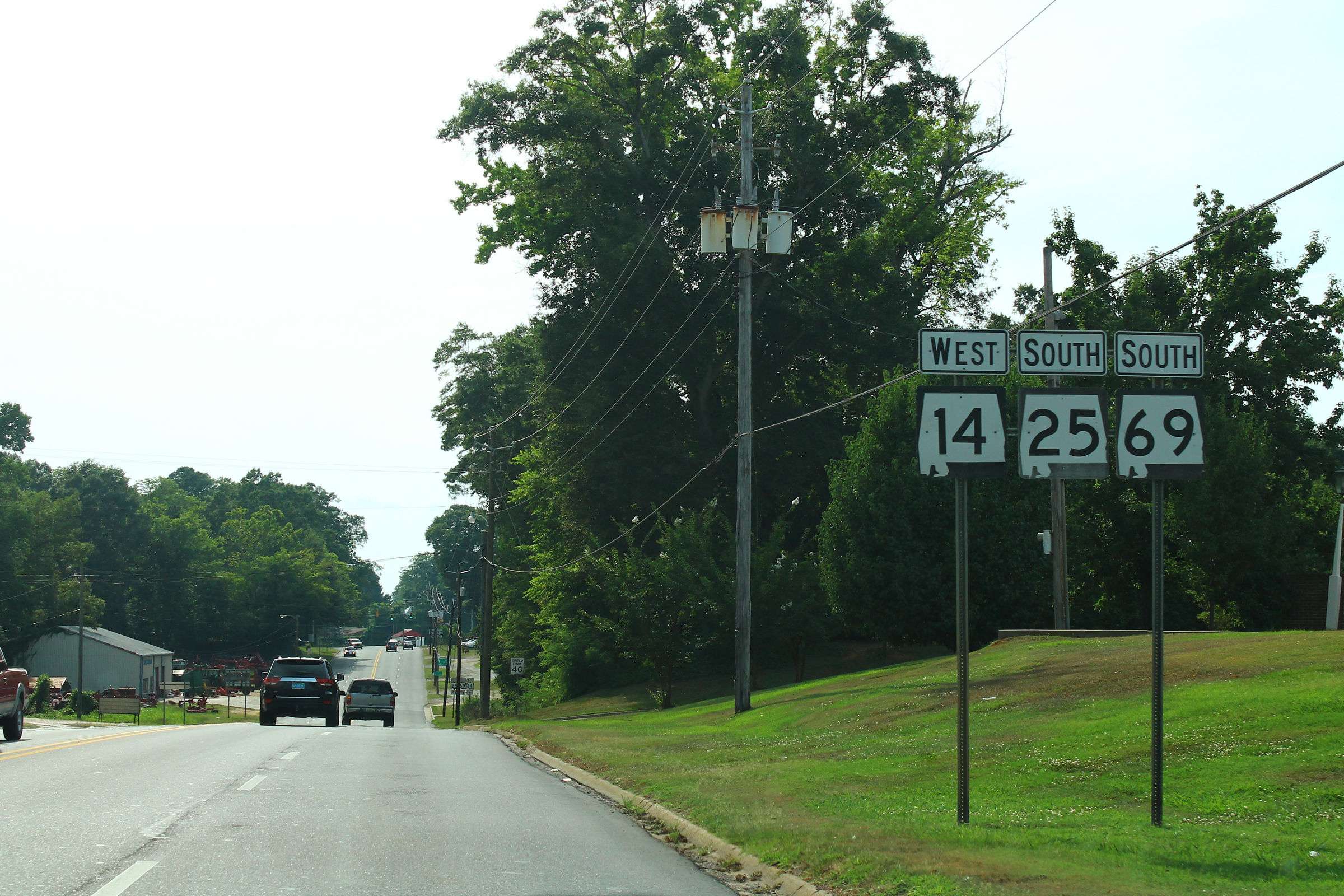 AL69sAL25sAL14wRoadSigns